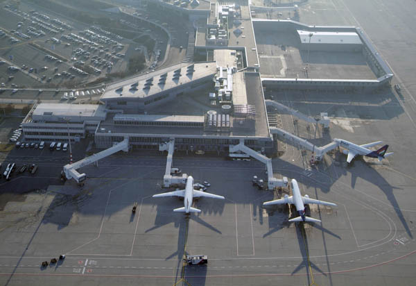 Ferihegy, Hungary, Budapest, airport